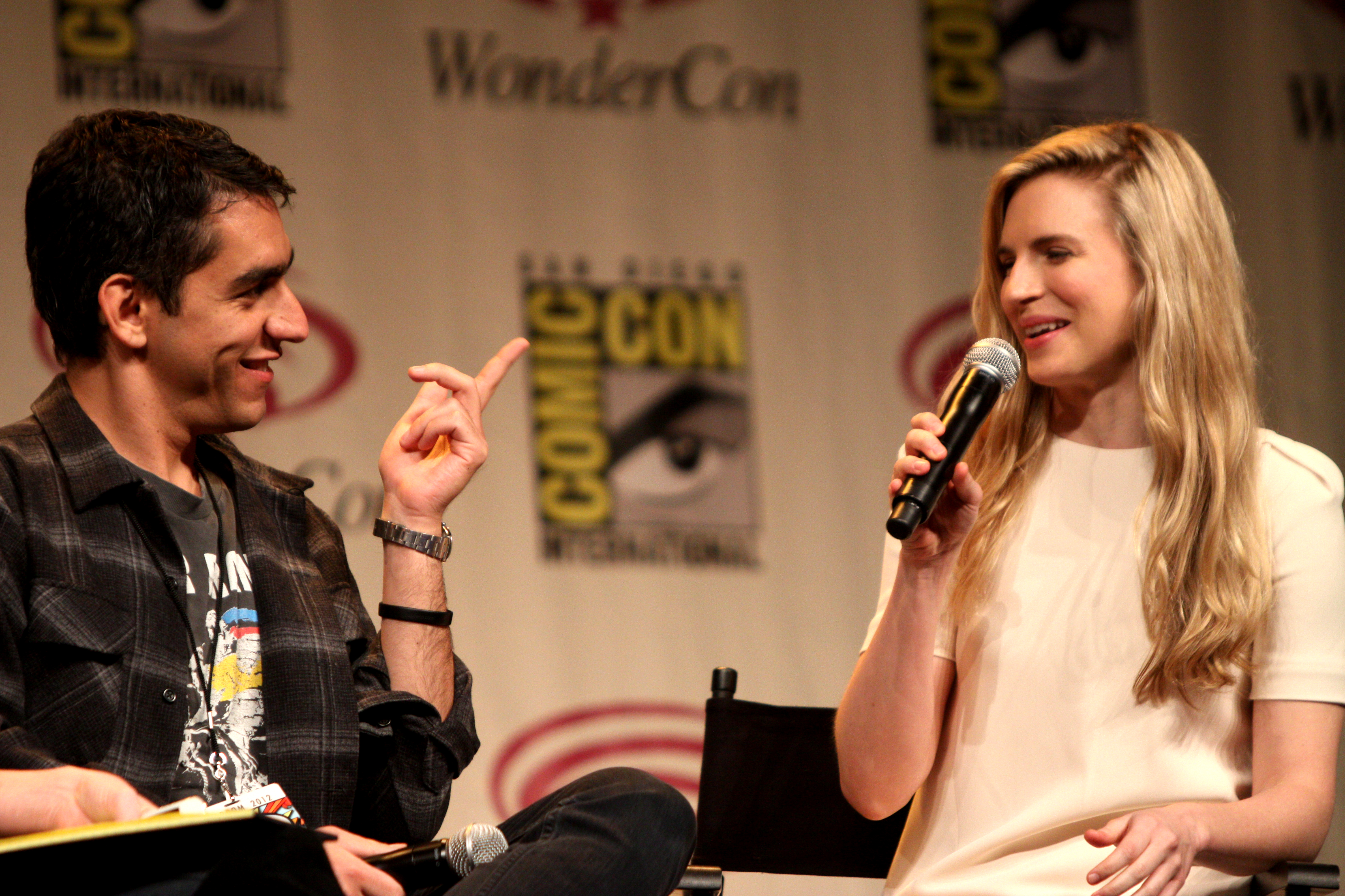 Zal Batmanglij and Brit Marling speaking at the 2012 WonderCon in Anaheim, California.